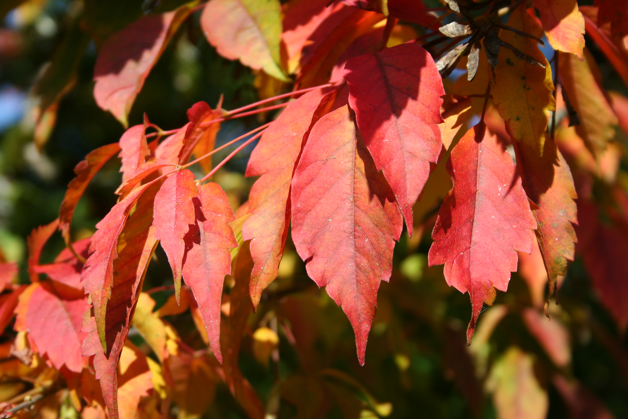 Acer cissifolium (Vine-leafed Maple, Vineleaf Maple vigne (Acer cissifolium) leaves Planting date : 1971 Precise location : (S47B – 57) Arboretum Robert Lenoir - Rendeux (Belgium). Walon: Fouyes dol Plane a fouyes di vigne (Acer cissifolium) Annéye do plantis' : 1971 Place rècta : (S47B – 57) Arboretum Robert Lenoir – Rindeu (Bèljike).